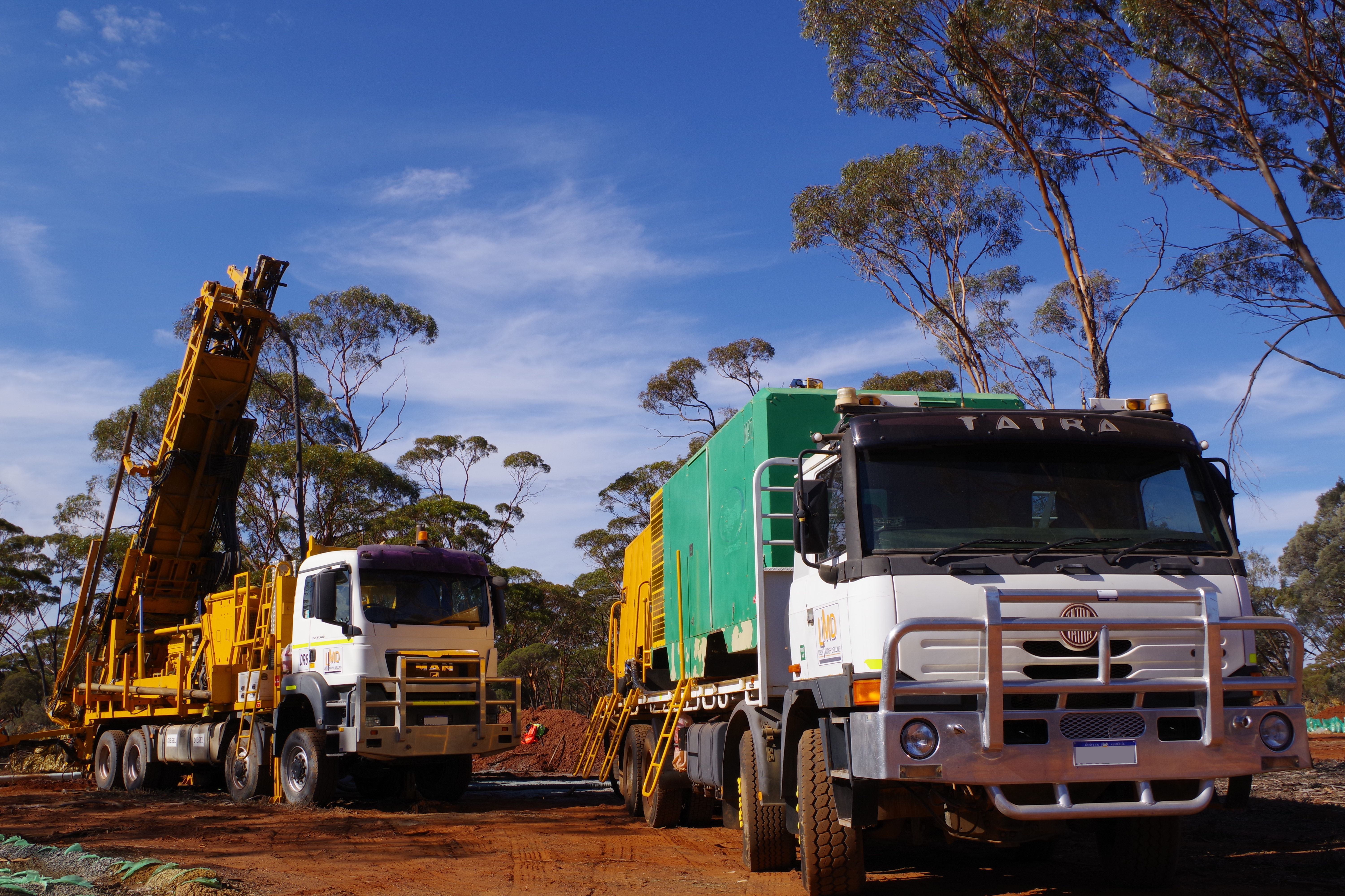 Tatra TerrNo.1 as a booster truck for a RC drill rig, Western Australia